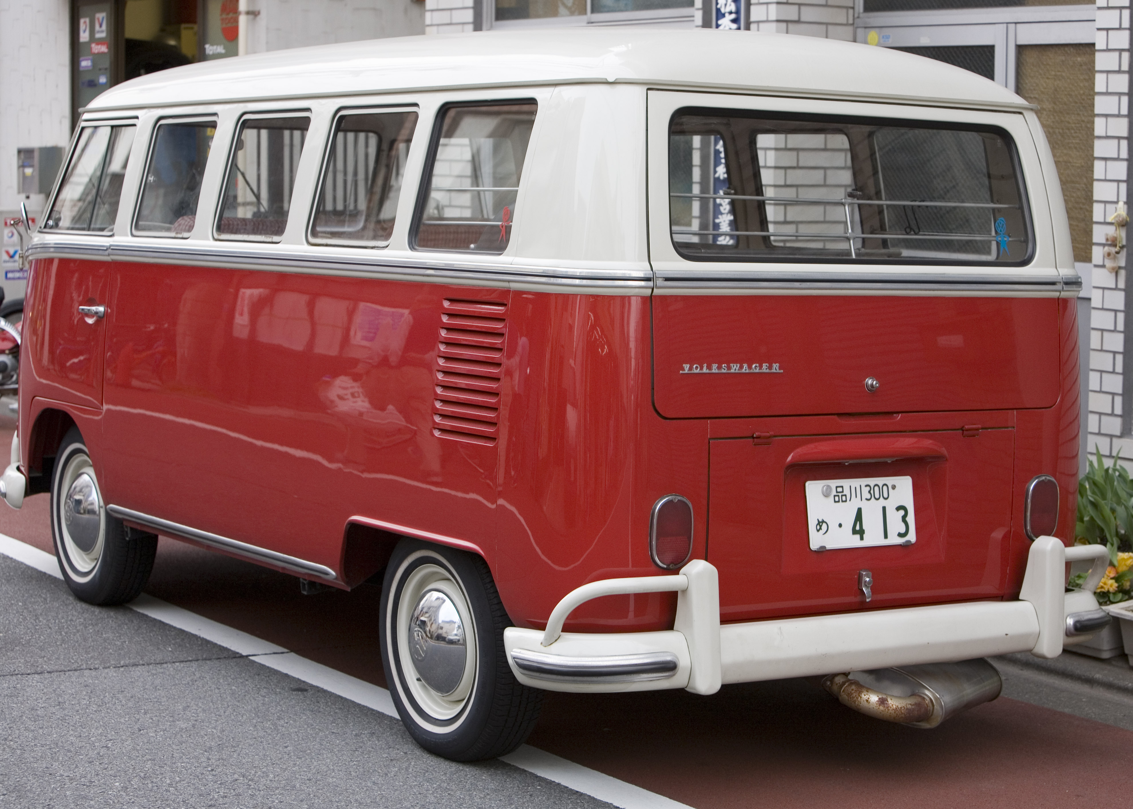 A Volkswagen T1 from the rear